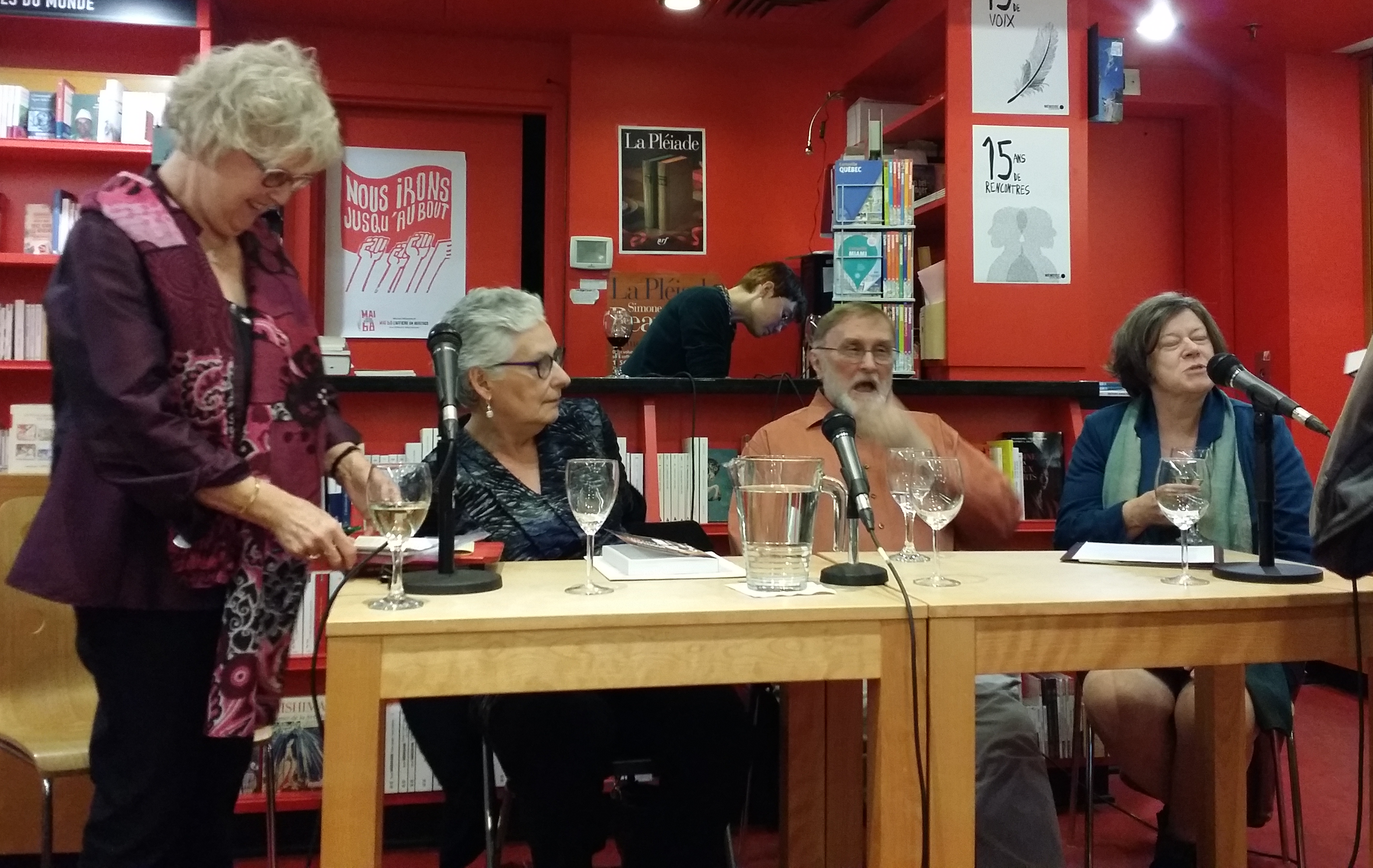 Denis St-Jacques & Lucie Robert photographed photographed in Montréal, Québec, Canada at the Gallimard Bookstore.